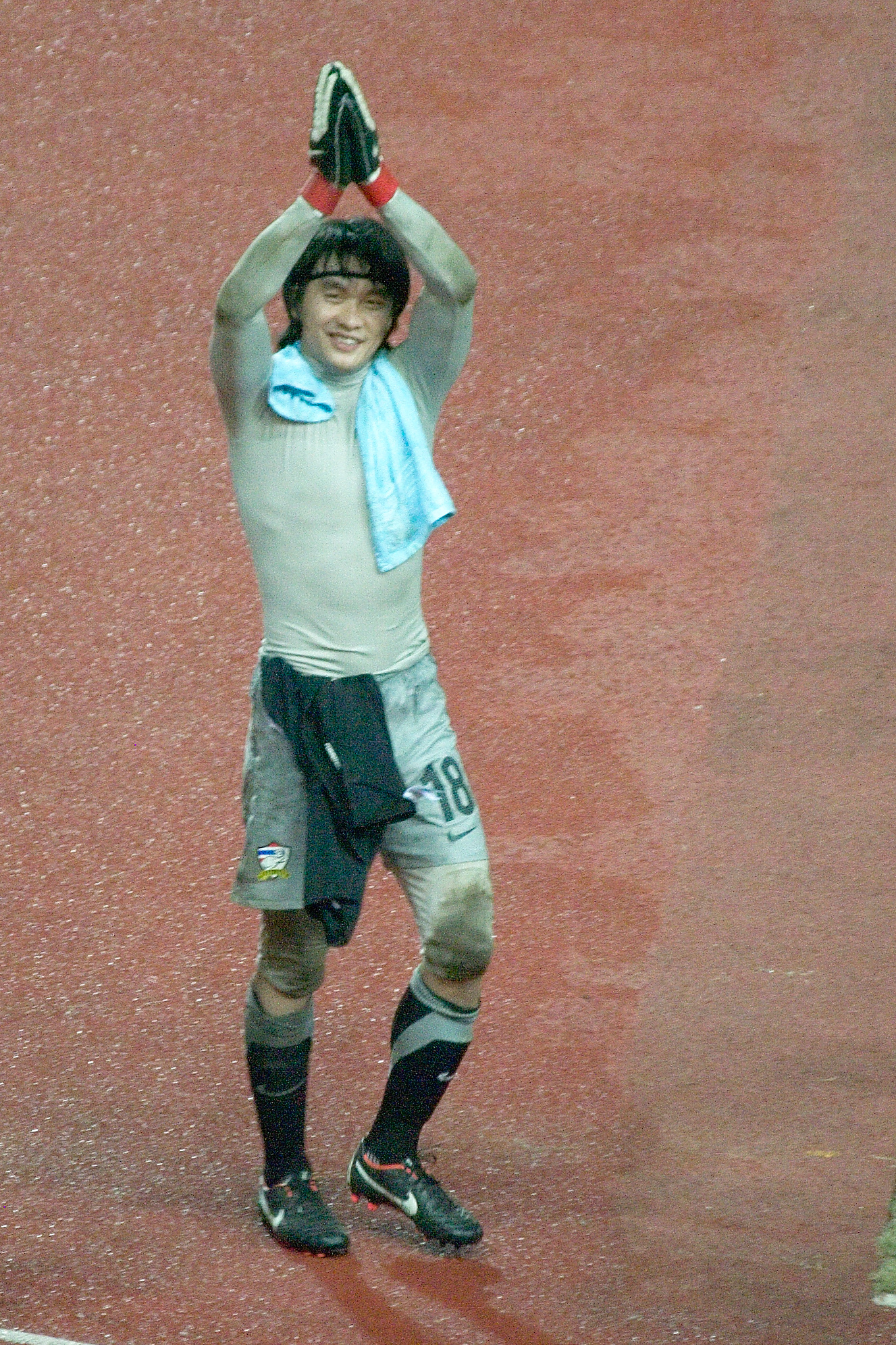 Thailand's Sinthaweechai Hathairattanakool after the World Cup 2014 third round qualifying match against Oman at Rajamangala Stadium